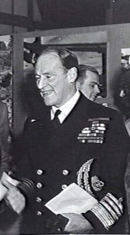 Portrait of Admiral Sir Edward Evans KCB, DSO (later 1st Baron Mountevans), a senior British Royal Navy officer.